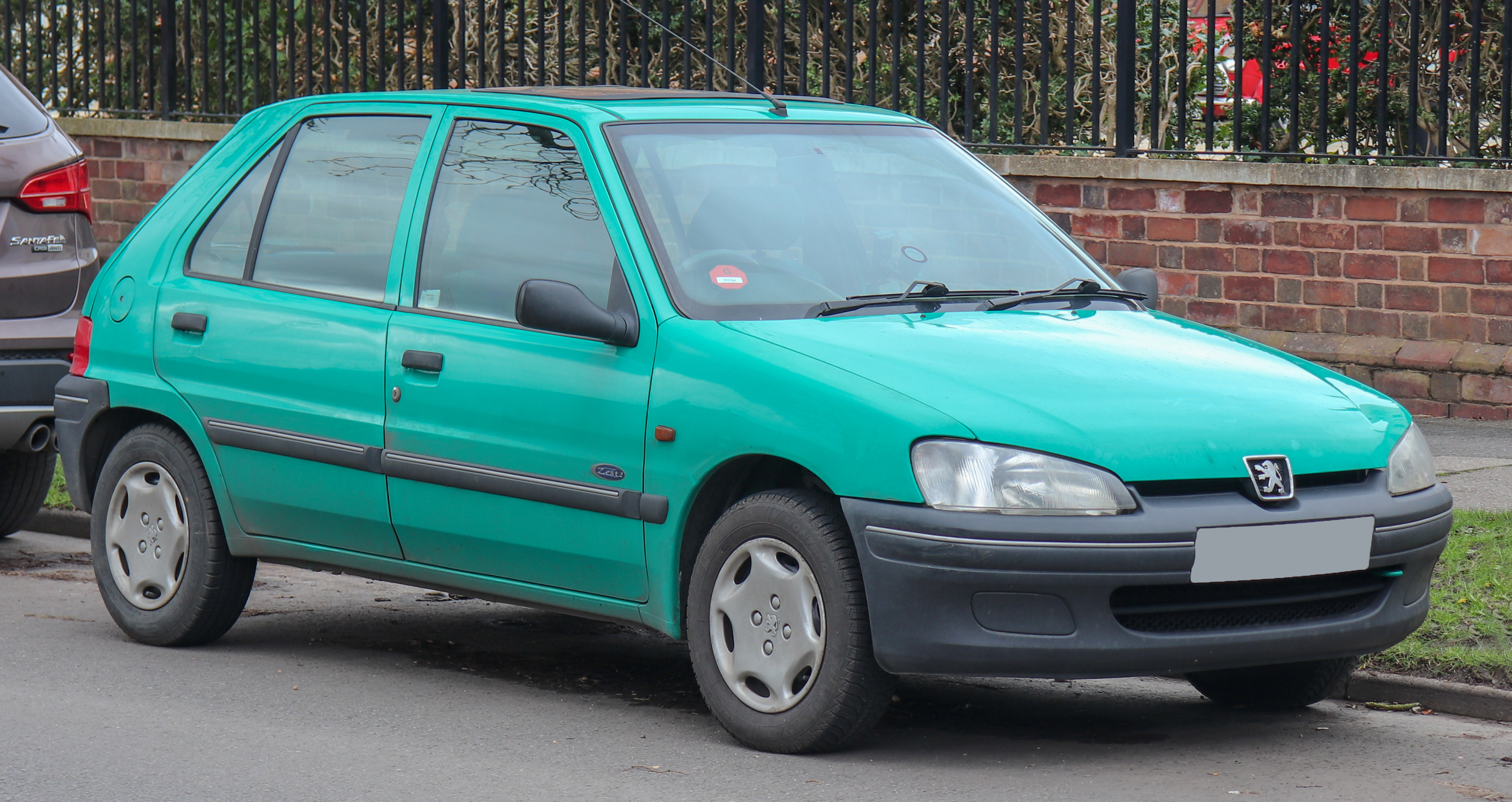 1998 Peugeot 106 XND Zest 2 1.5 Front Taken in Leamington Spa